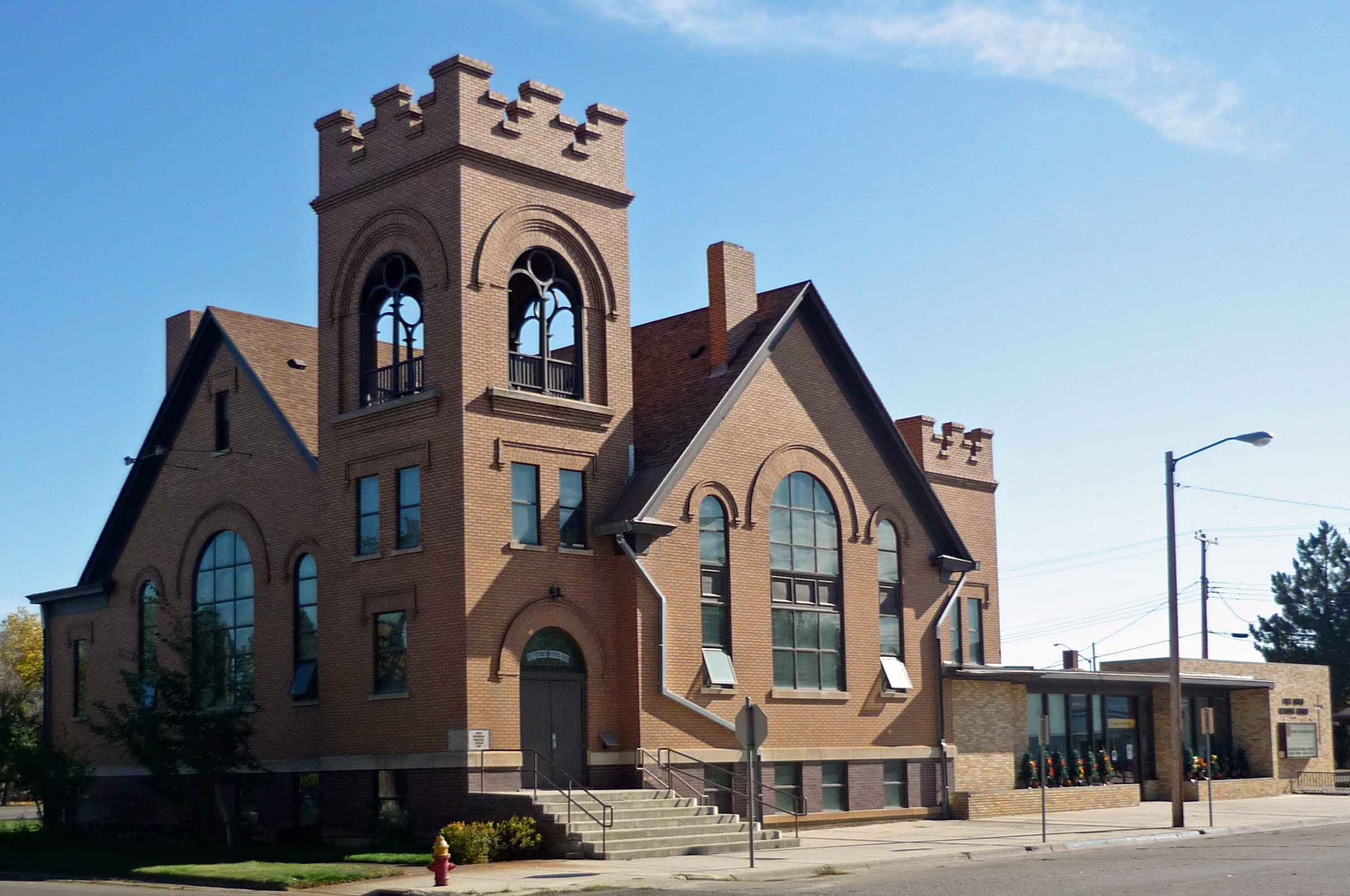 Methodist Church in Miles City, Montana. On the National Register of Historic Places building as part of the Carriage Street Historic District